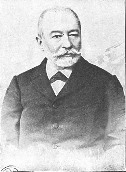 Romanian politician Dimitrie A. Sturdza